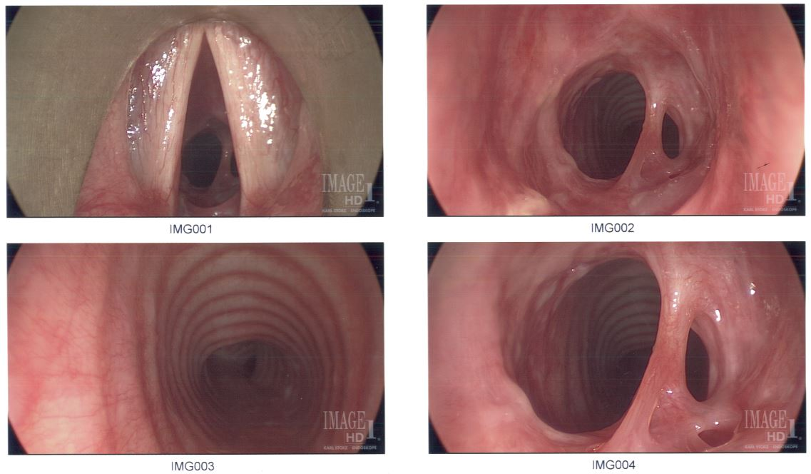 Pre-surgical photographs of a 31 year old female patient with subglottic stenosis caused by the formation of scar tissue resulting from chronic gastroesophageal reflux disease.